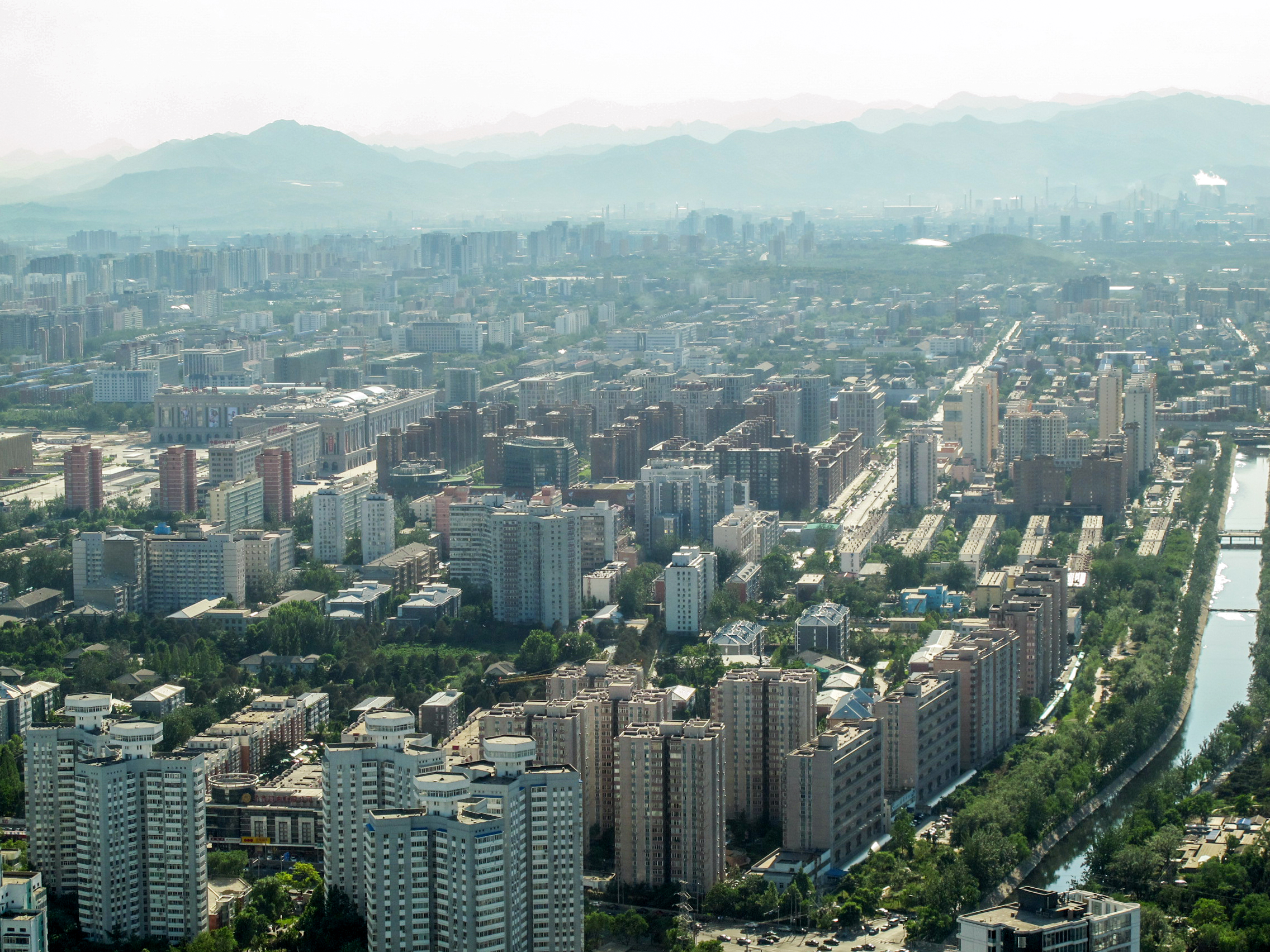 海淀区五棵 Haidian District